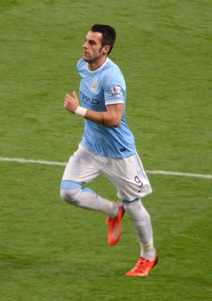 Álvaro Negredo making his debut for Manchester City FC in first game of the 2013/14 season against Newcastle United on 19 August 2013.